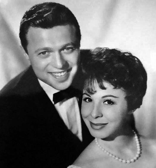 Publicity photo of Steve Lawrence and Eydie Gorme.